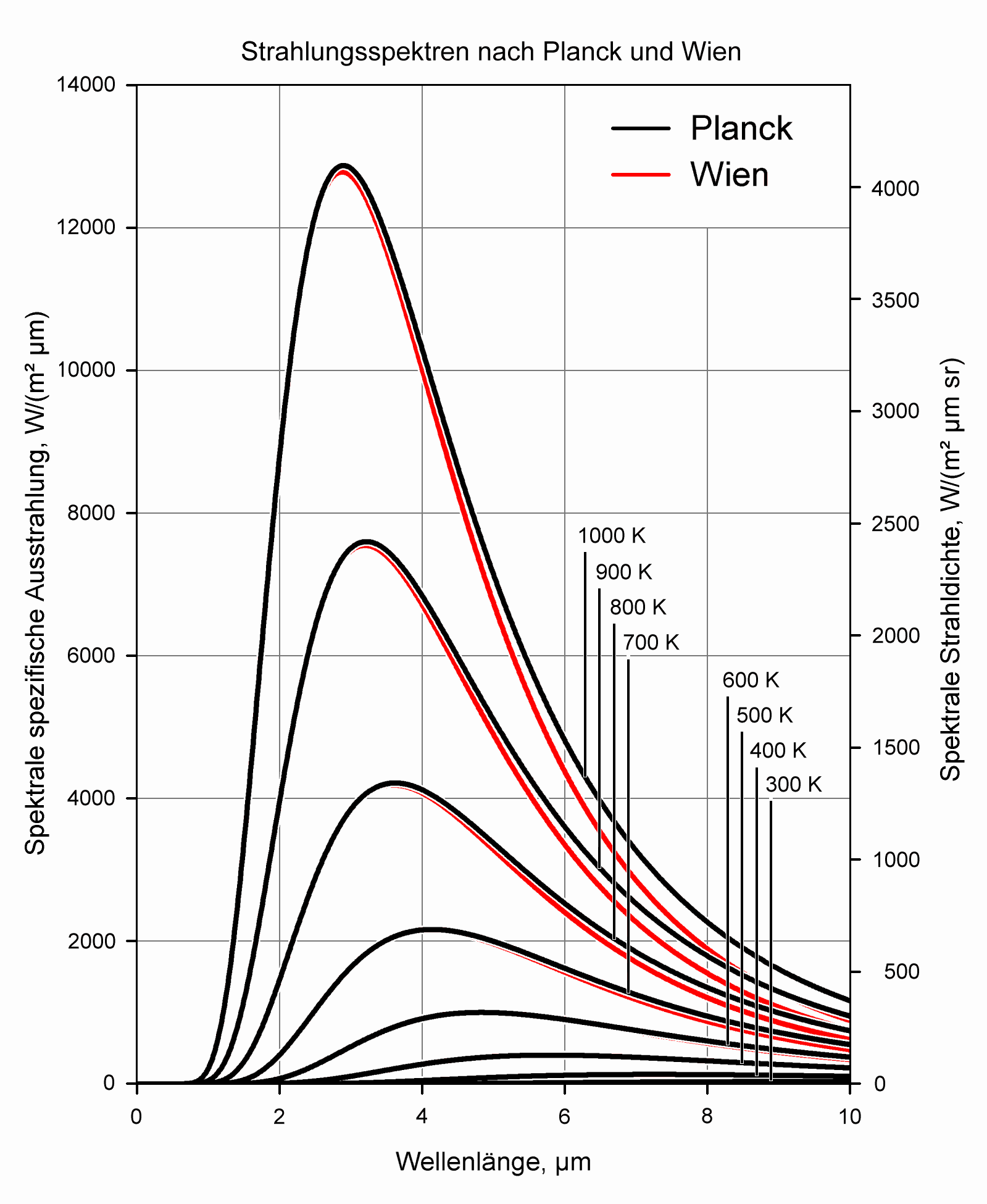 Comparison of the radiation laws formulated by M. Planck and W. Wien.